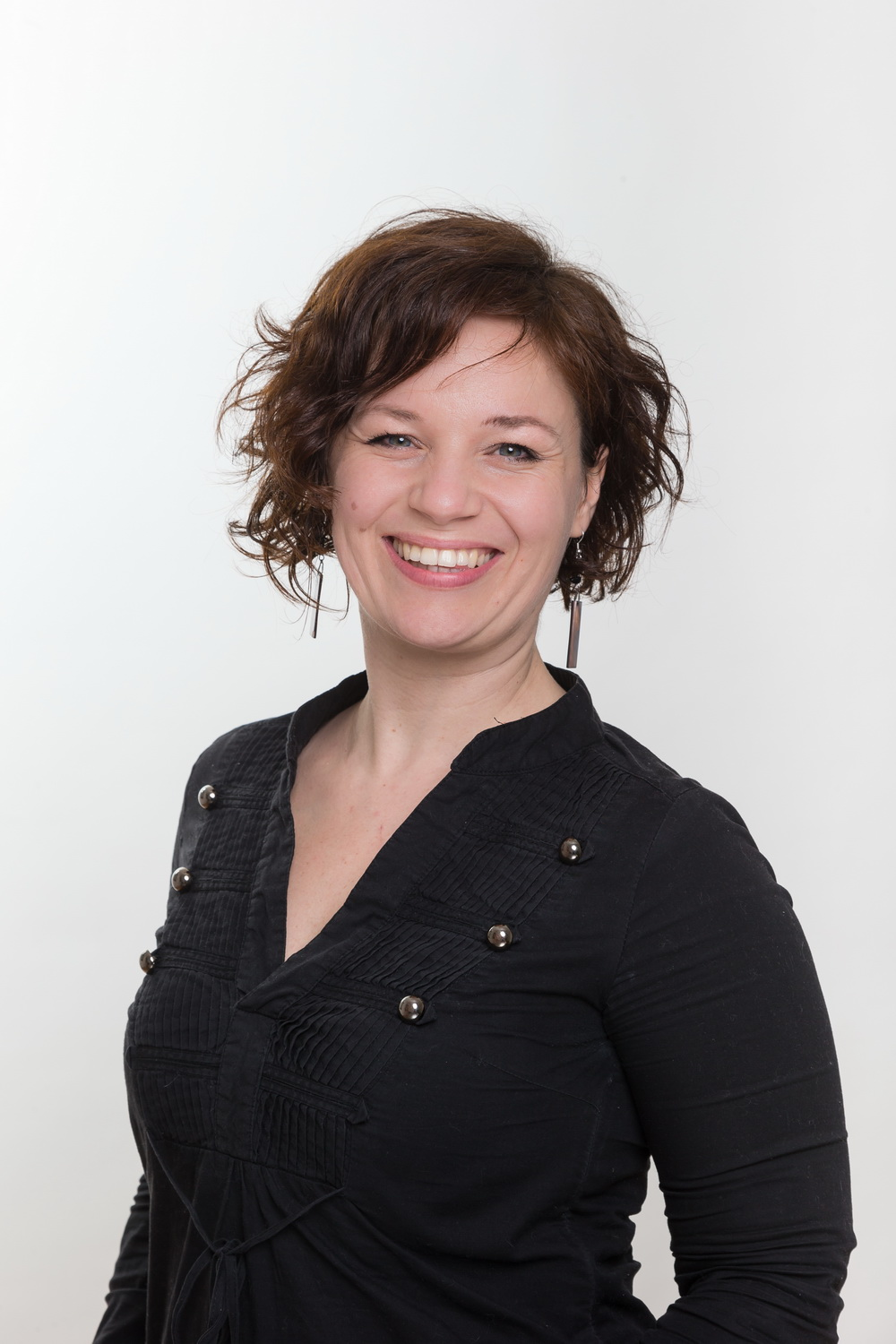 Tanja Bagar, Ph.D., Assistant Professor